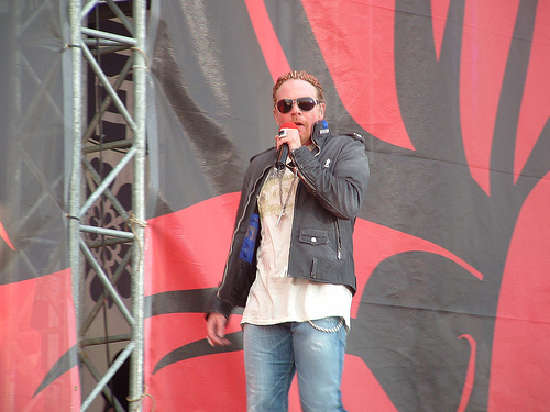 Axl Rose at the Download Festival in Donington, England.